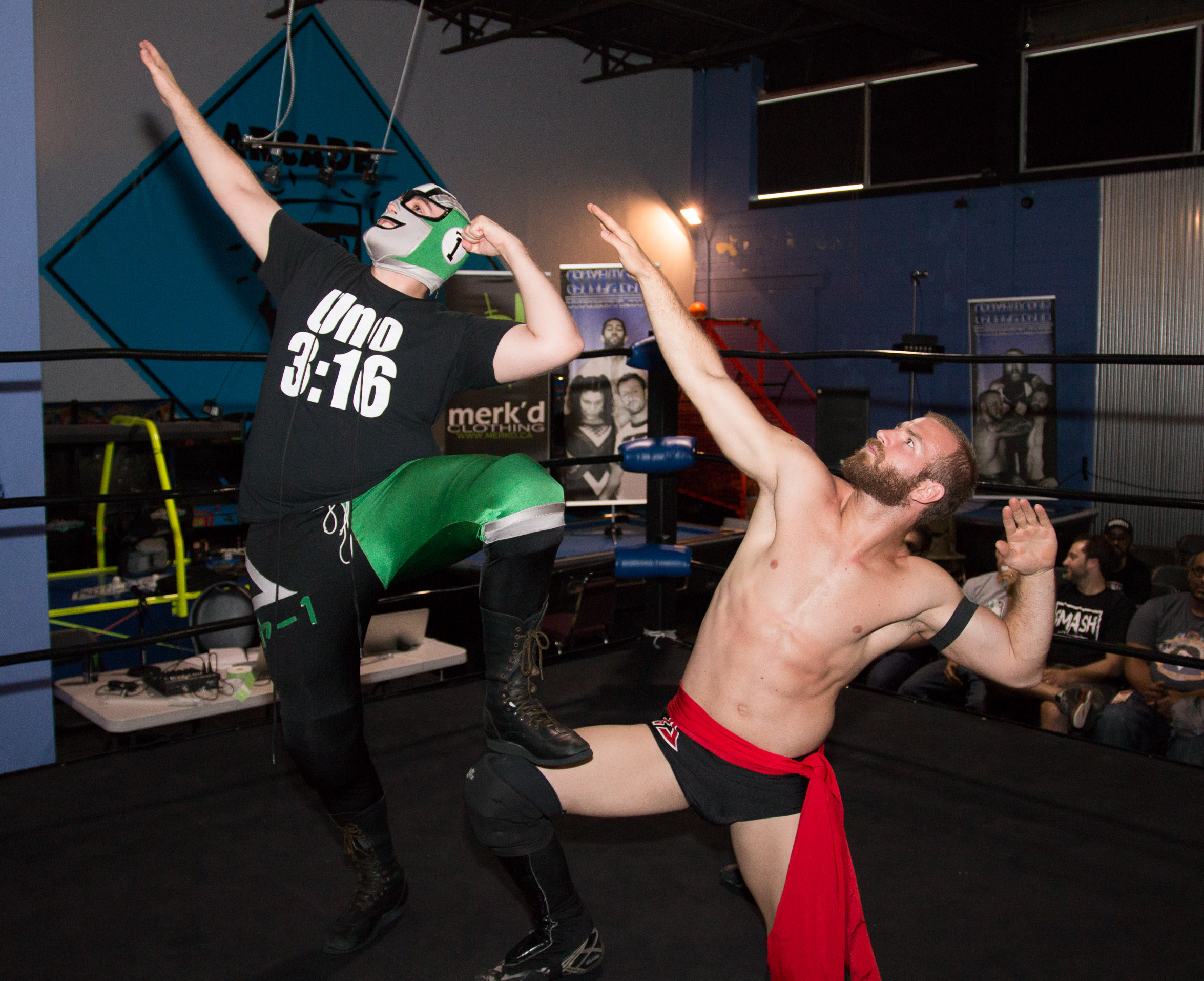 Pro wrestling tag team the Super Smash Brothers - Player Uno (left in mask) and Stu Dos hitting their signature in-ring pose at Smash Wrestling's Smashapalooza in Etobicoke, ON